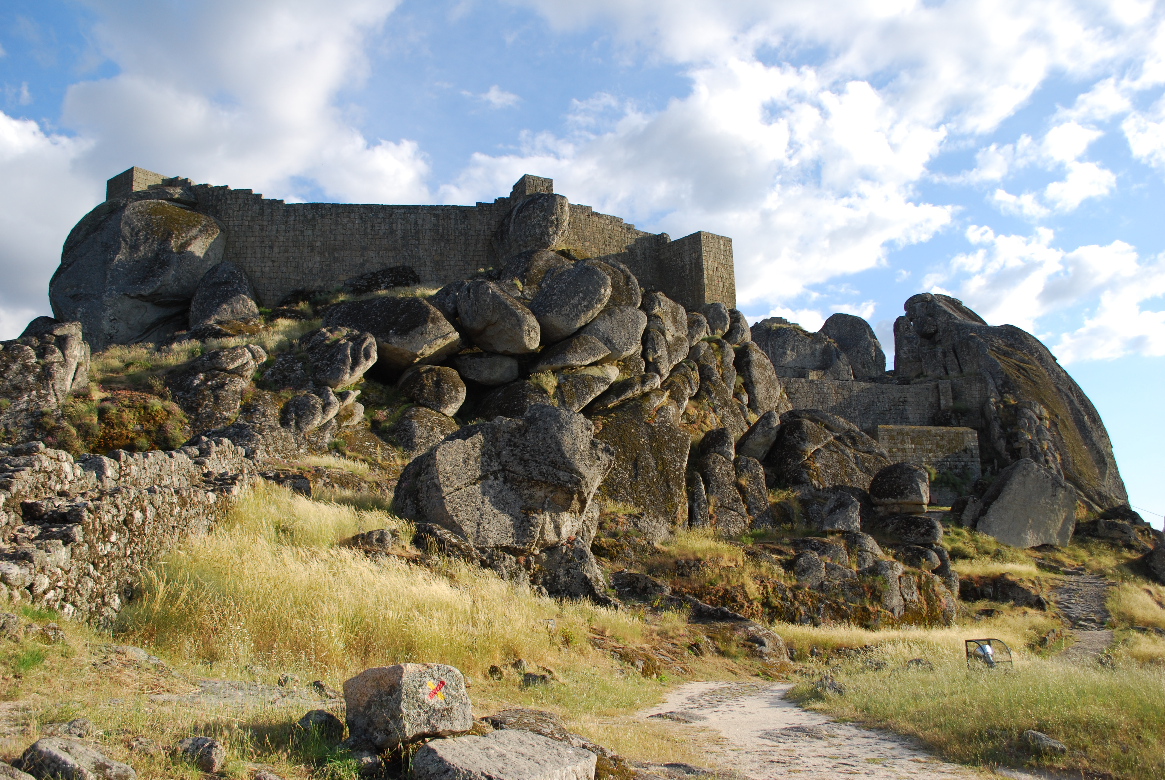 This monument is classified as Monumento Nacional. This file was uploaded for Wiki Loves Monuments in Portugal with the unique identifier 69865.